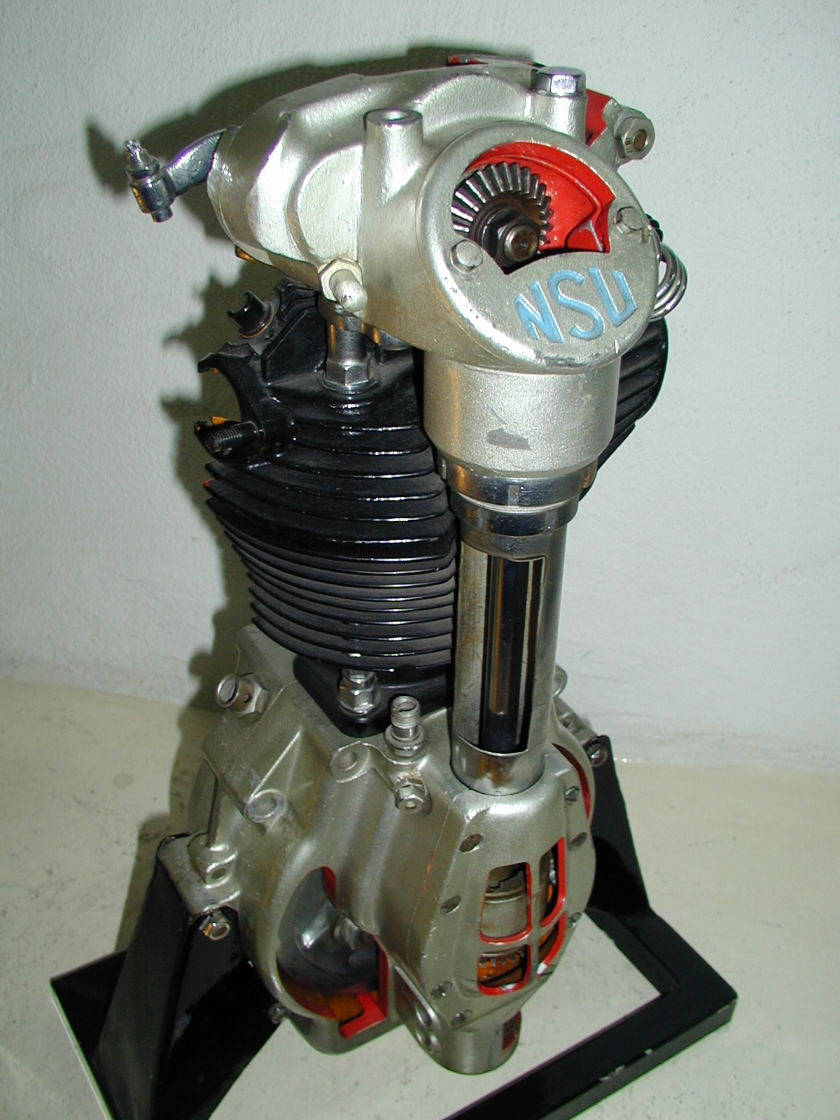 Cutaway of a NSU motorcycle engine with a solid shaft and bevel-cut gears which drives the camshaft.